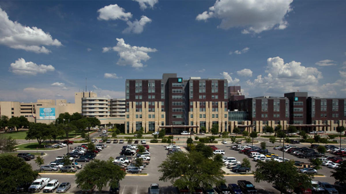 Baylor Scott & White Hospital in Temple, Texas